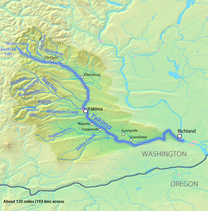 Map of the Yakima River and its drainage basin in Washington, USA